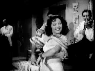 Armida Vendrell in The Girl from Monterey directed by Wallace Fox 1943